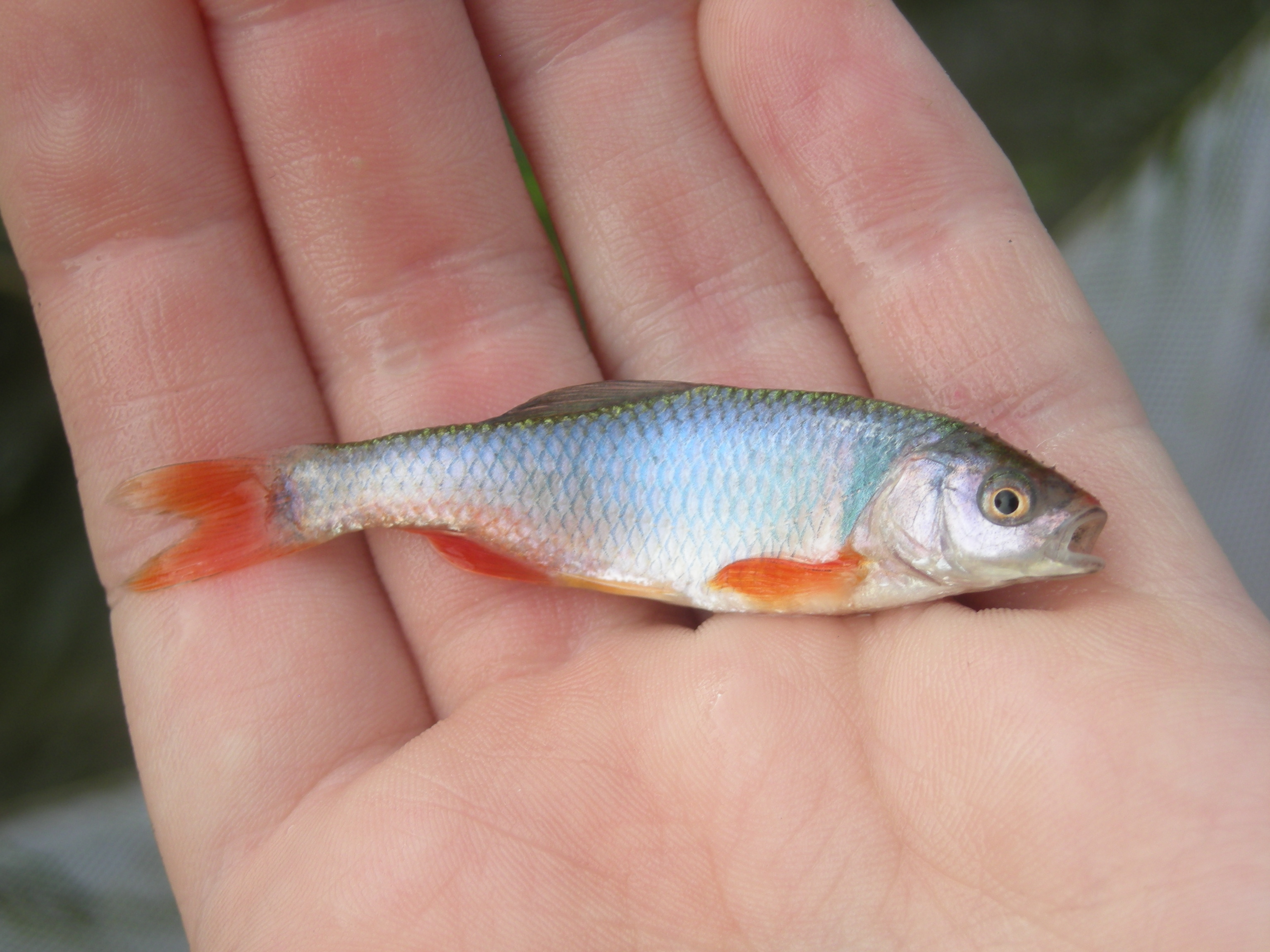 male red shiner in full breeding colors